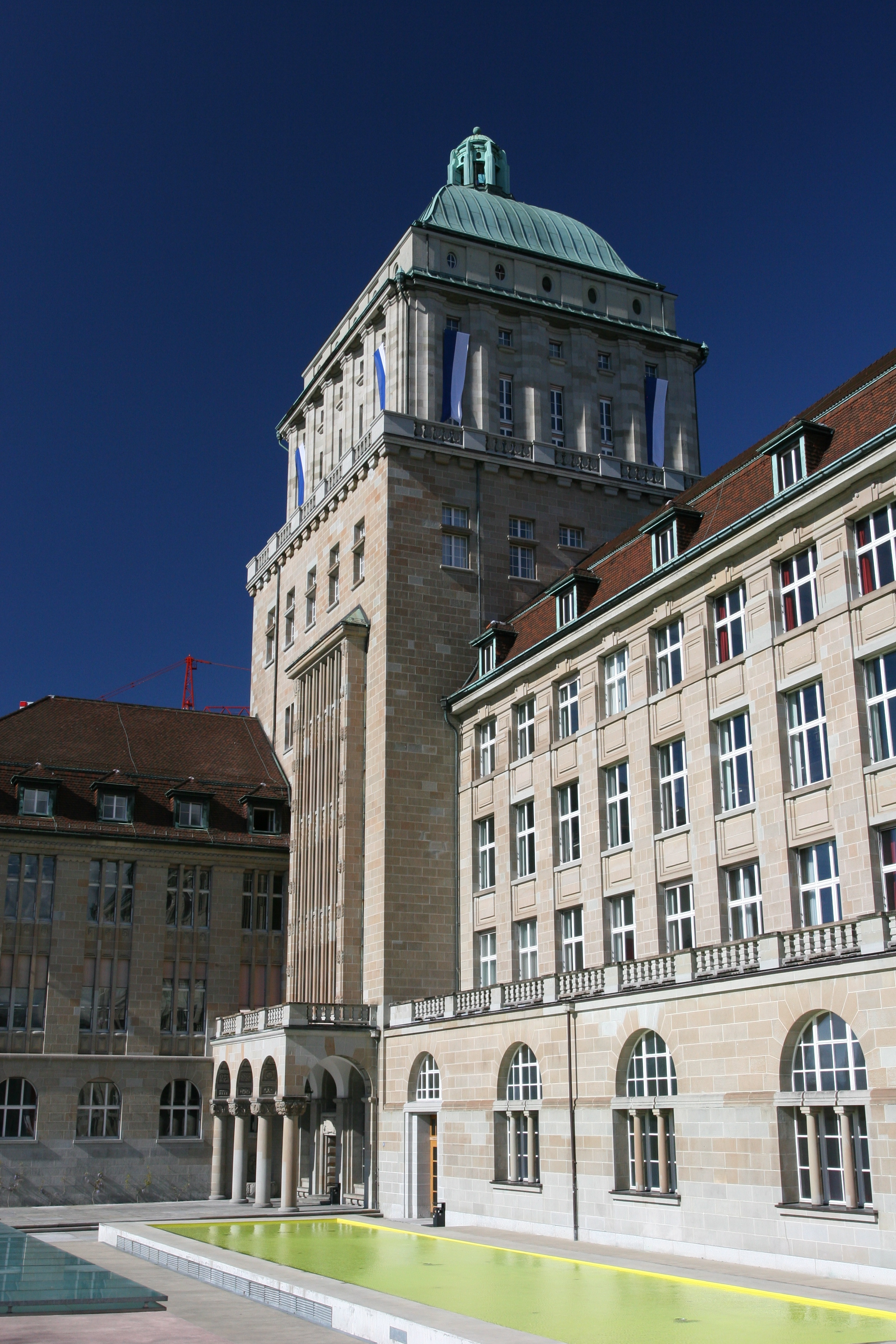 Main building